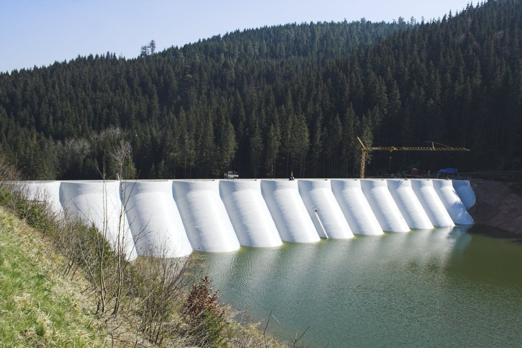 View of the Linachtalsperre, Black Forest, Germany during the first damming after the renovation.